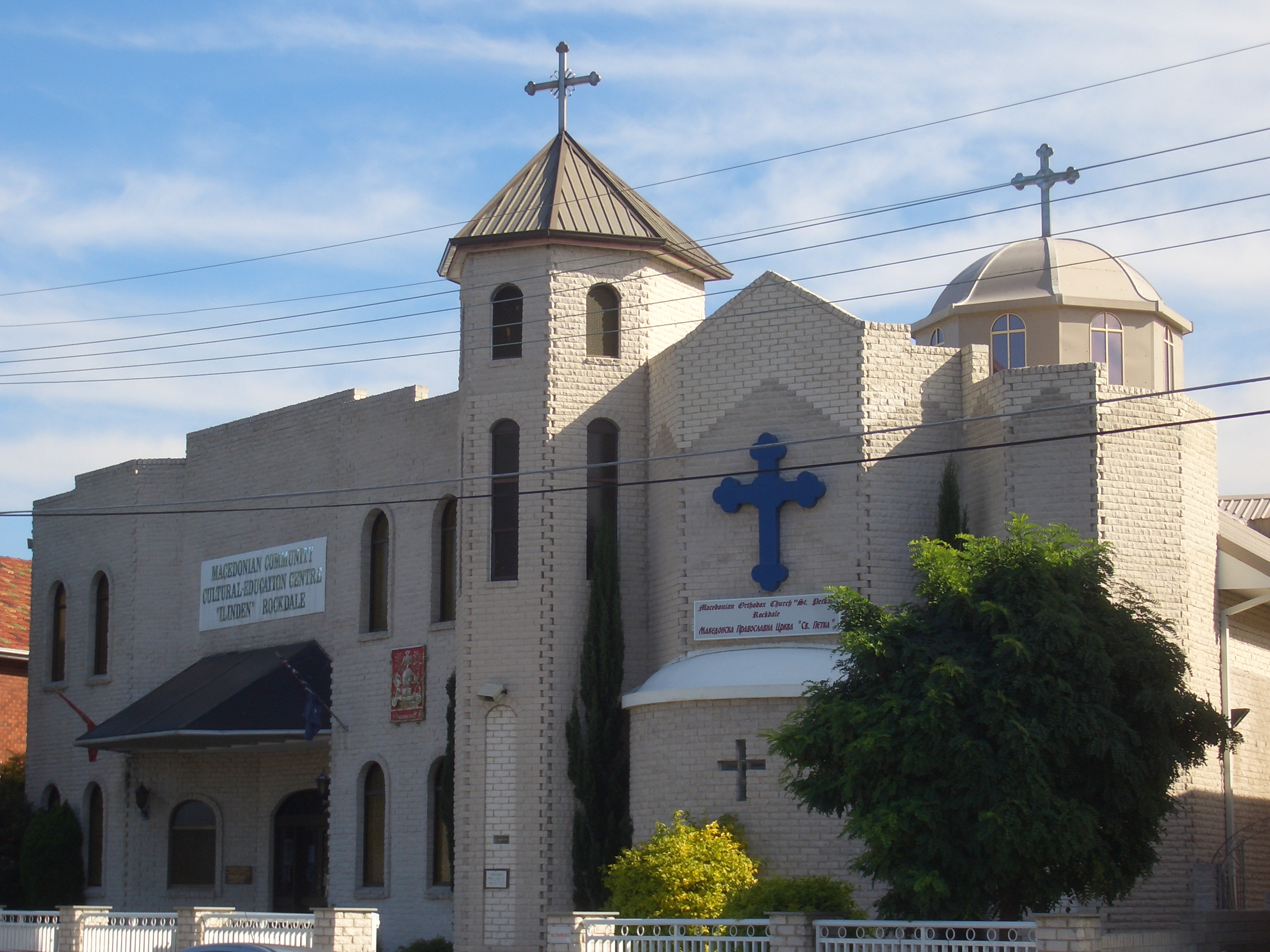 St Petka Macedonian Orthodox Church, Railway Street, Rockdale, Sydney